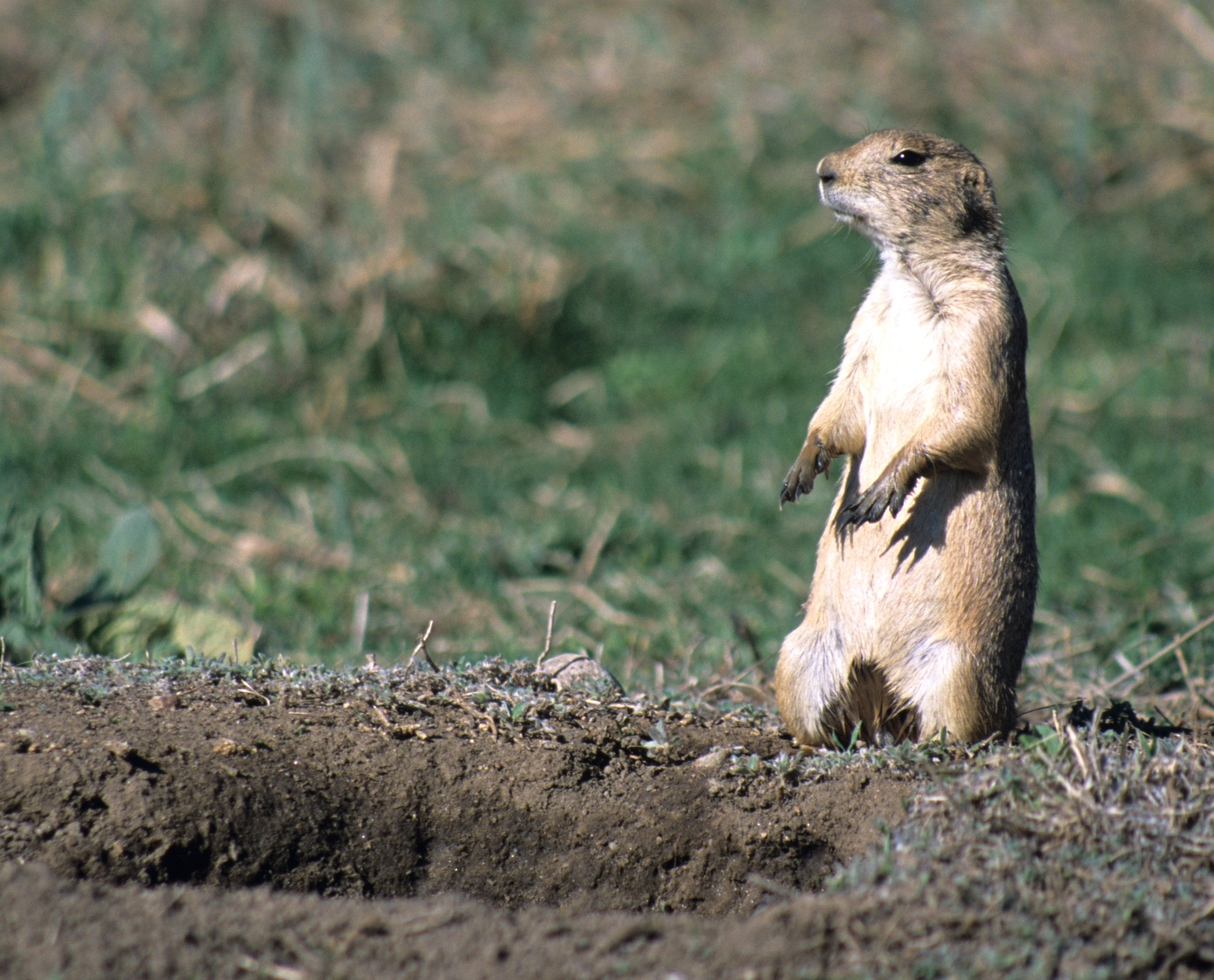 White-tailed prairie dog (Cynomys leucurus), Colorado, USA.